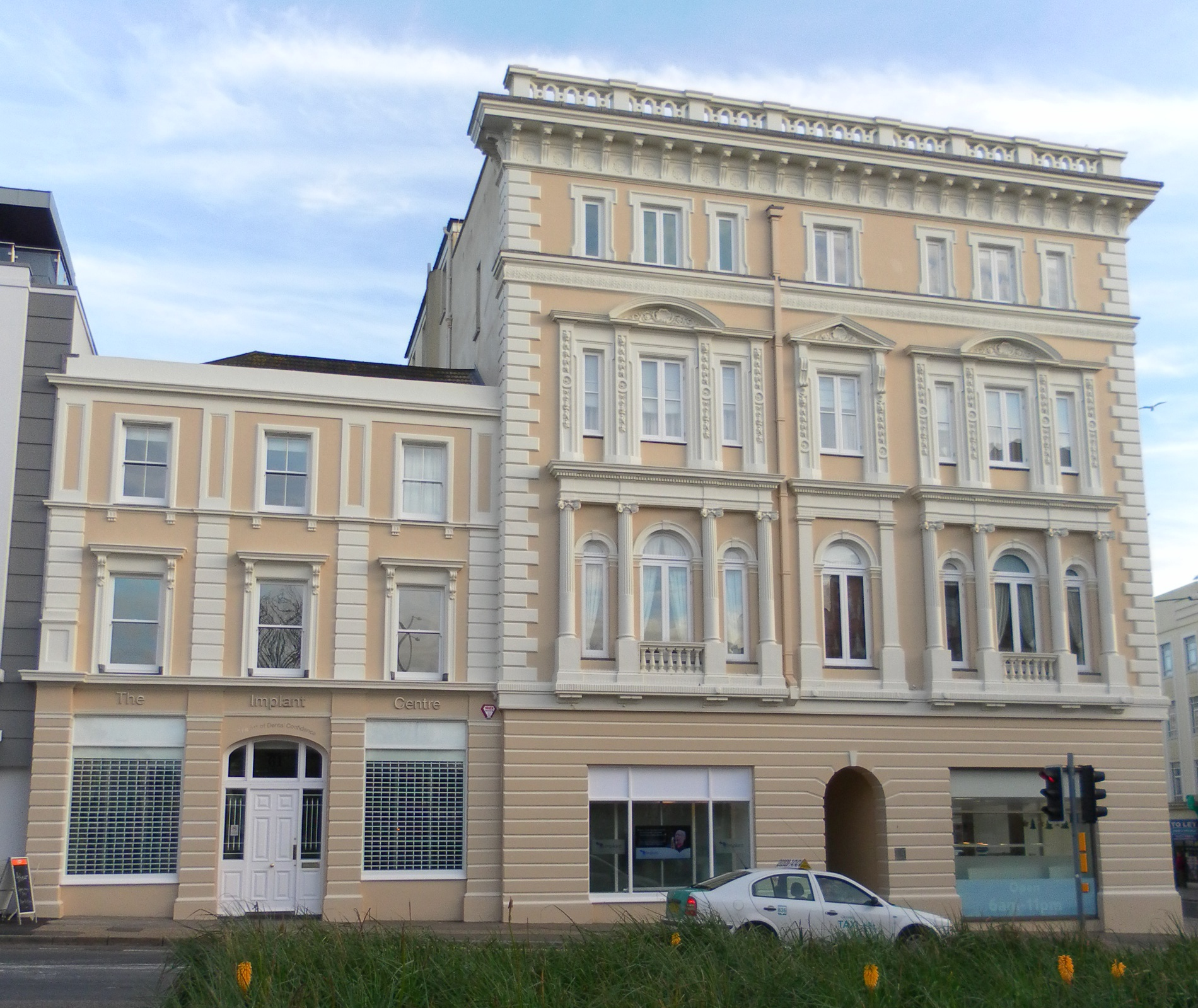 Palmeira House, Palmeira Square, Hove, City of Brighton and Hove, England. Built by Thomas Lainson in 1887 for the Brighton & Hove Co-operative Supply Association.